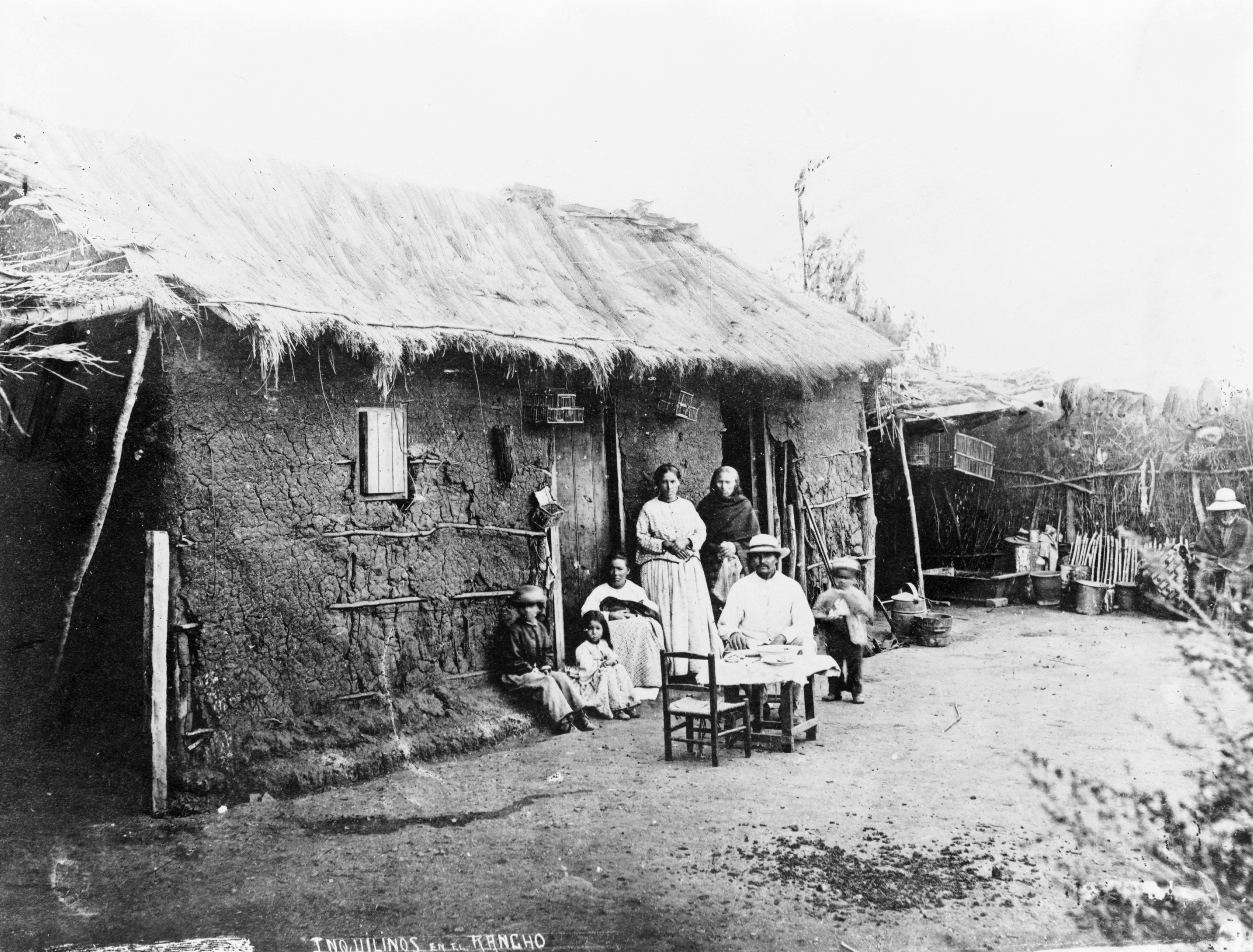 Inquilinos in front of adobe house, with thatched roof, Rotos, Chile.